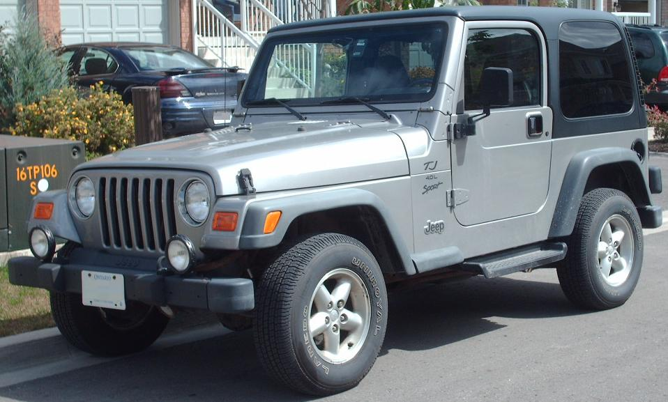 1997-2006 Jeep Wrangler photographed in Markham, Ontario, Canada.